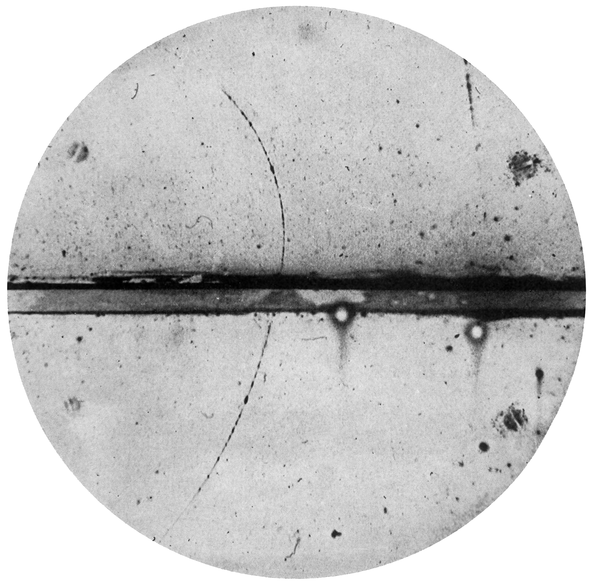 Cloud chamber photograph of the first positron ever observed. The thick horizontal line is a lead plate. The positron entered the cloud chamber in the lower left, was slowed down by the lead plane, and curved to the upper left. The curvature of the path is caused by an applied magnetic field that acts perpendicular to the image plane. The higher energy of the entering positron resulted in lower curvature of its path.Original caption: A 63 million volt positron (Hρ = 2.1×105 gauss-cm) passing through a 6 mm lead plate and emerging as a 23 million volt positron (Hρ = 7.5×104 gauss-cm). The length of this latter path is at least ten times greater than the possible length of a proton path of this curvature.